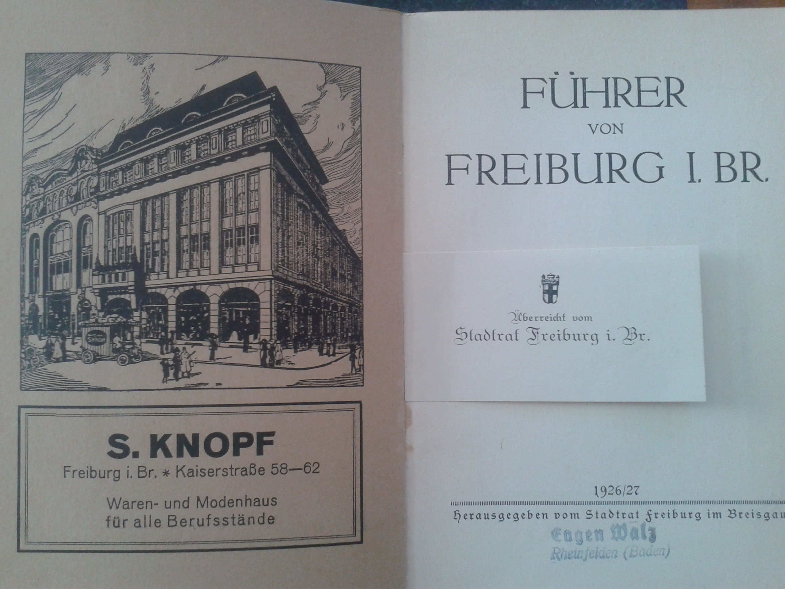 Advertisement of S. Knopf Warenhaus Freiburg, Cover, verso and title page of: Stadtrat Freiburg (Hrsg.): Führer von Freiburg i. Brsg. 1926/27.